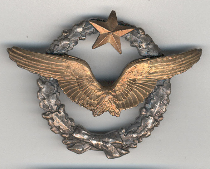 French Air Force pilot's badge; three piece badge; applied gold wings and 5 point star on top center; silver wreath; Reverse: engraved number "35578"; bar back. (Bequest of the Estate of Col. Harold B. Willis)